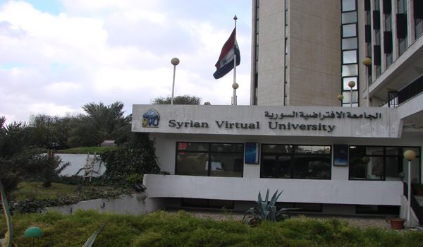 Syrian Virtual University